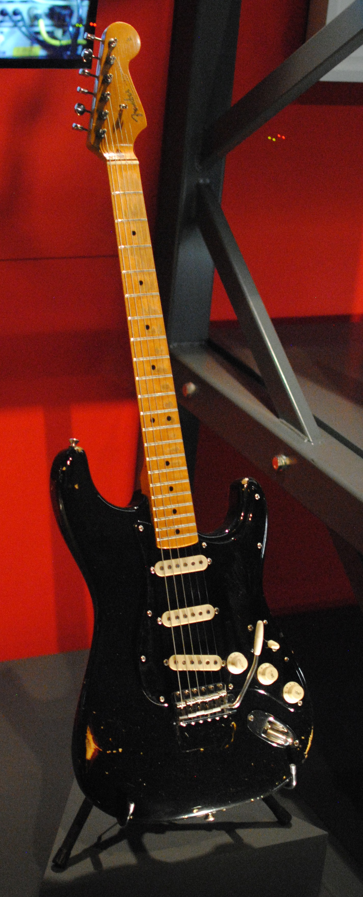 David Gilmour's 'Black Strat', a Fender Stratocaster; displayed at the Pink Floyd: Their Mortal Remains exhibition at the Victoria and Albert Museum. Considered Gilmour's primary guitar, the instrument was purchased in New York in 1970 and used on all Pink Floyd albums and shows until the mid 1980s; and at the band's Live 8 reunion.